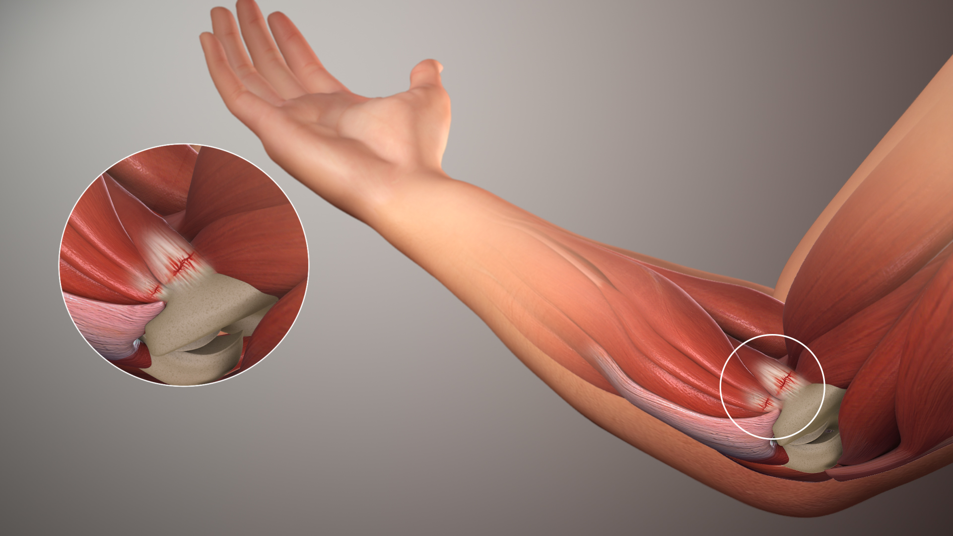 A 3D medical animation still shot illustrating the medical condition known as Golfer's elbow